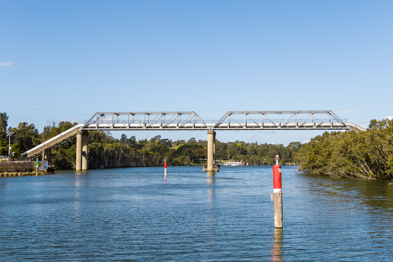 Thackeray Bridge, Parramatta River